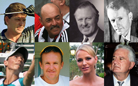 A montage of 8 notable white Zimbabweans (or Rhodesians). Including: Top row, left to right: Nick Price - Zimbabwean golfer (born in Rhodesia). Bruce Grobbelaar - Zimbabwean footballer (born in South Africa, moved to Rhodesia as a child). James Graham, the 7th Duke of Montrose - British nobleman and Rhodesian politician (born in Scotland, moved to Rhodesia as a young man) Ian Smith - Zimbabwean politician and Rhodesian prime minister (born in Rhodesia). Bottom row, left to right: Cara Black - Zimbabwean tennis player (born in Rhodesia) Andy Flower - Zimbabwean cricket player and coach (born in South Africa, moved to Rhodesia as a child) Charlene, Princess of Monaco - Olympic swimmer for South Africa, later Princess of Monaco (born in Rhodesia, moved to South Africa as a child) Harvey Ward - Zimbabwean businessman and politician (born in Rhodesia)